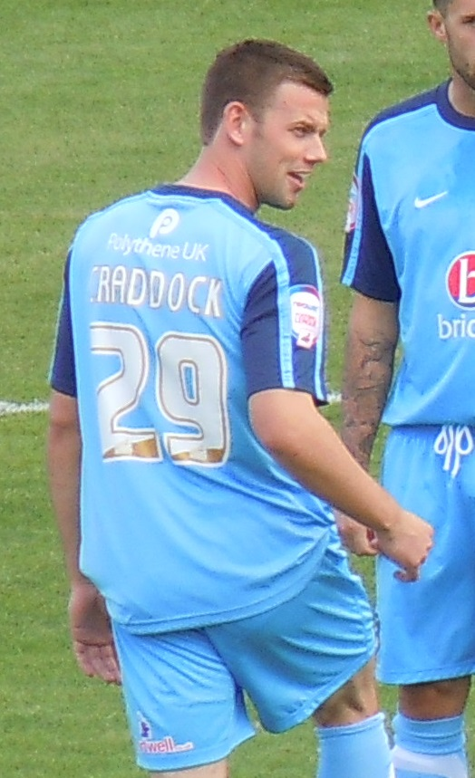 Tom Craddock. Image cropped from original at flickr.